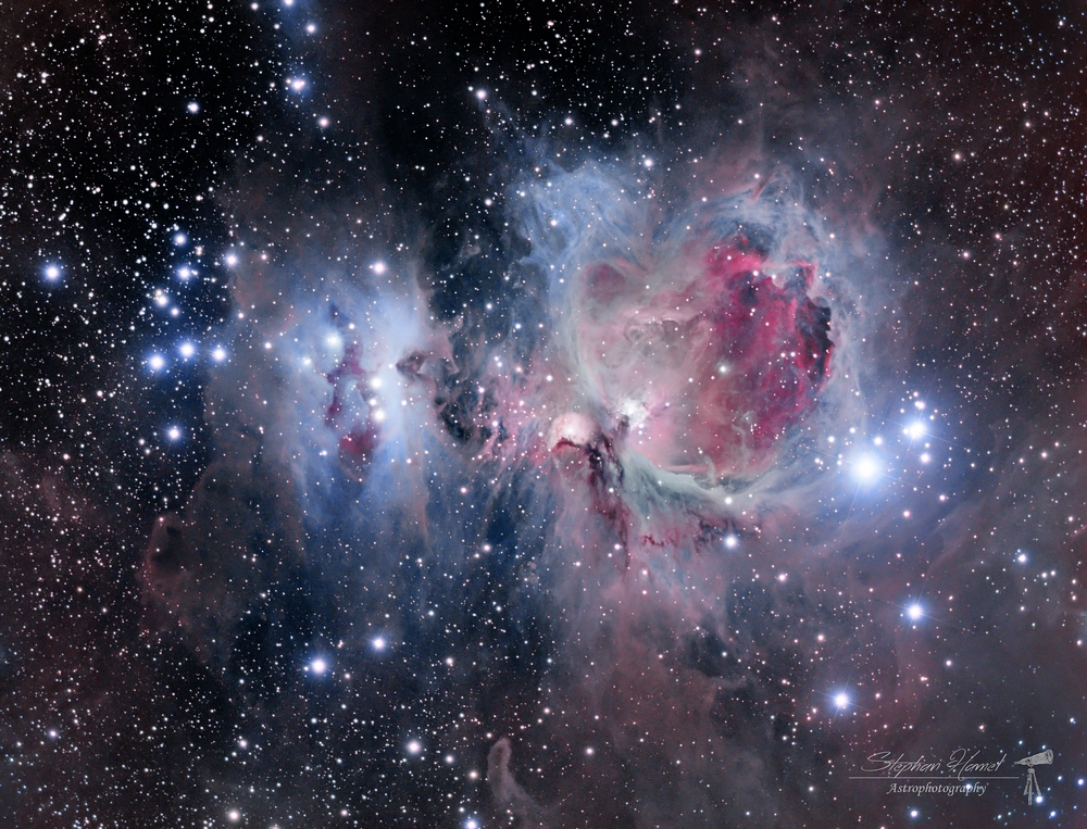 Orion and Running Man Nebulea and nebulosity imaged in LRGB 384mm refractor and a ZWO 1600MM